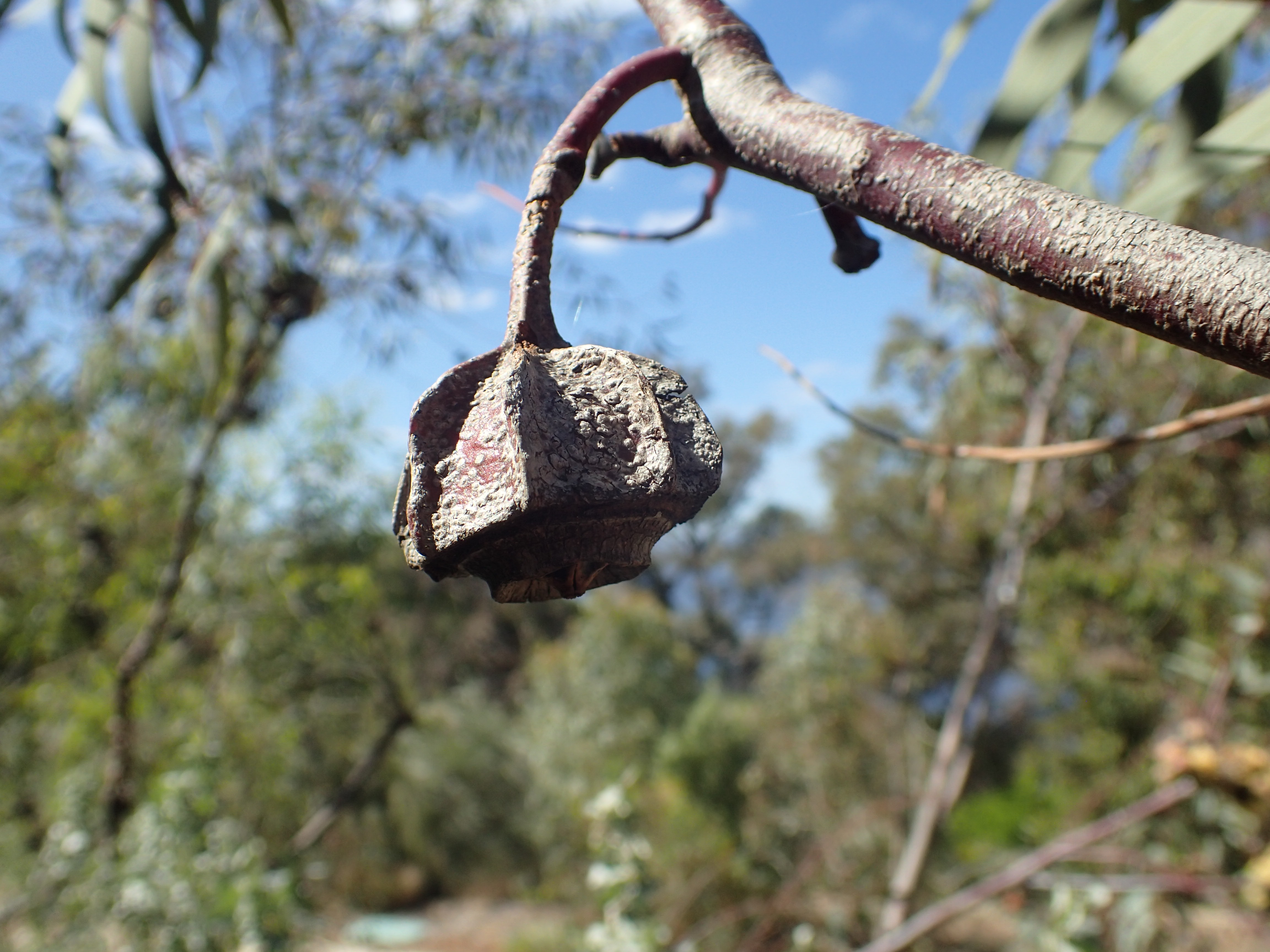 Fruit of Eucalyptus kingsmillii in Kings Park, Perth